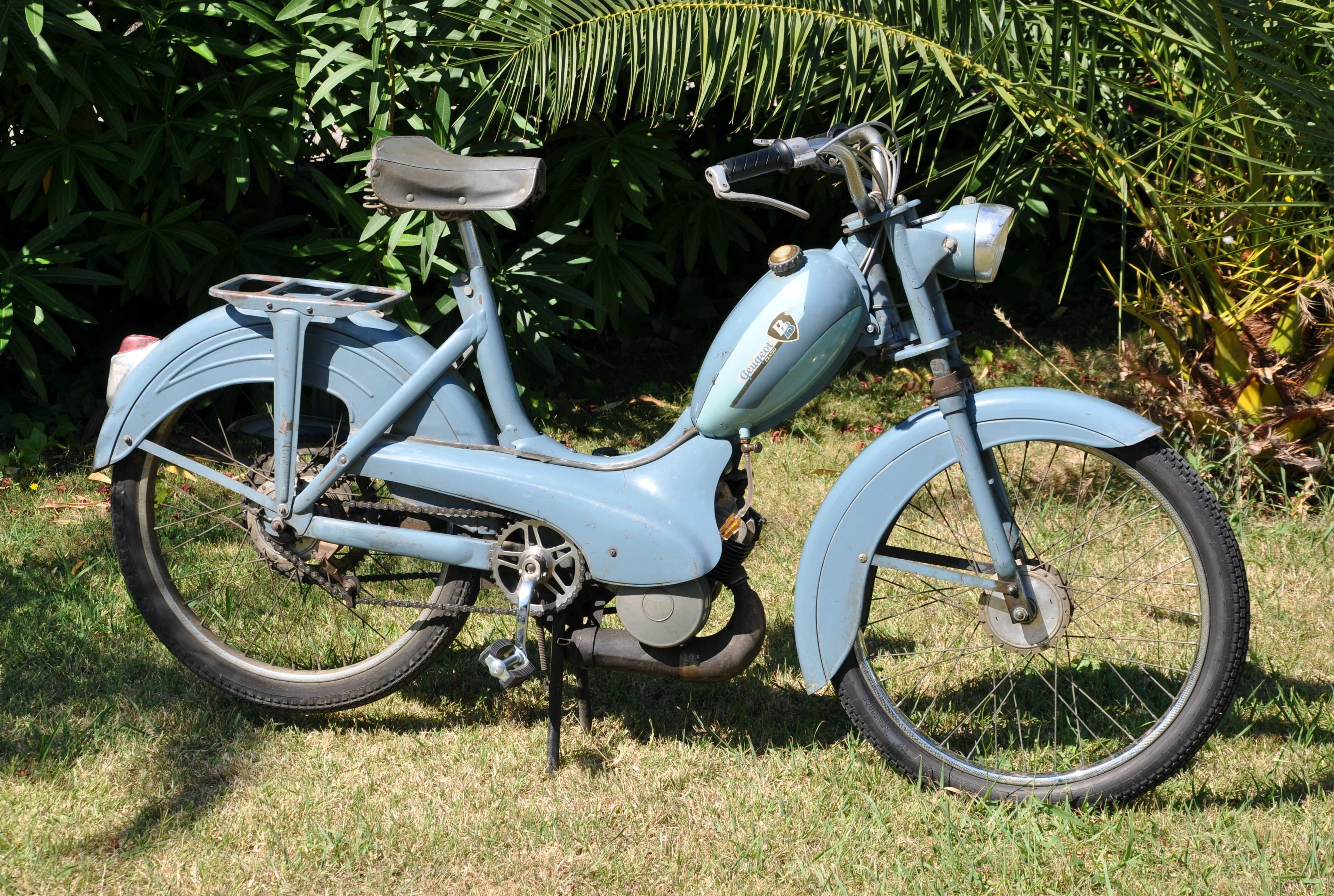 Peugeot type Cyclomoteur BB, built 1957